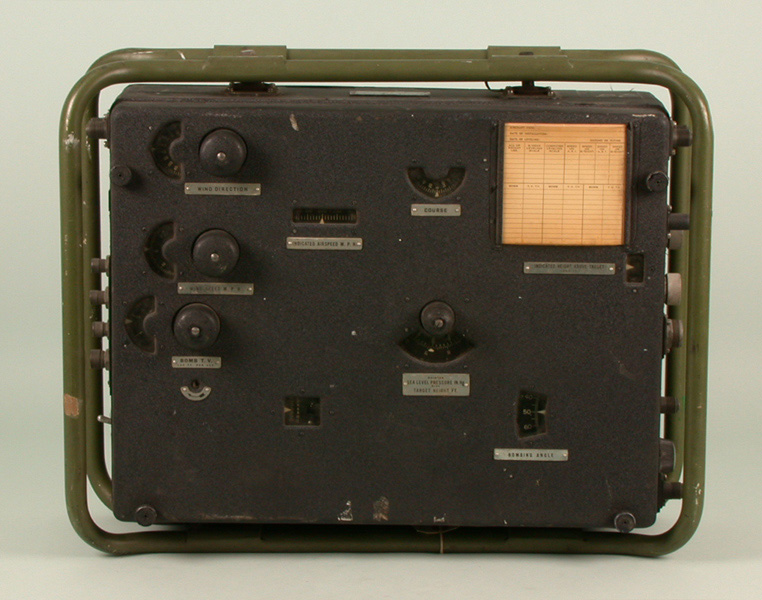 The T-1A computer, the US version of the Mk. XIVA "computor". This differs from the Mk. XIV only in minor details, most notably that the dials are not coloured, and this example retains all of the scales in front of the various reading windows. This example also has a levelling card, blank, held in the clips in the upper right.